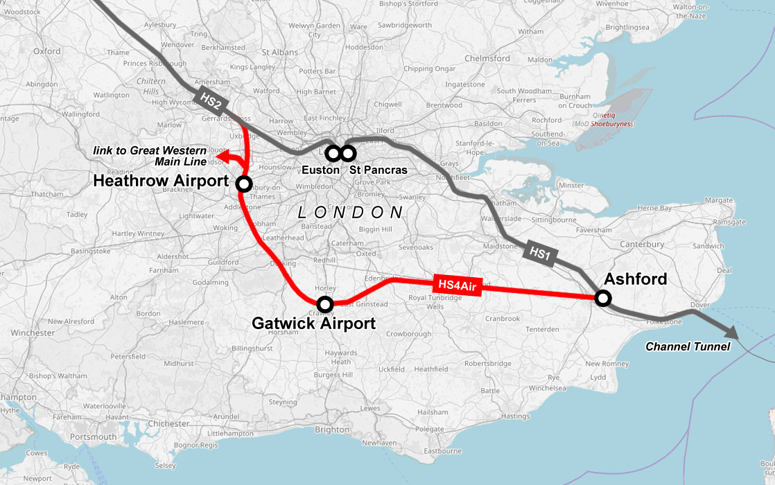 Outline map of the proposed HS4Air railway line, which would connect High Speed 1 to High Speed 2 via Heathrow and Gatwick Airports. The line was proposed in 2018 and is currently not confirmed or funded. This map may be incomplete, and may contain errors. Don't rely solely on it for navigation.